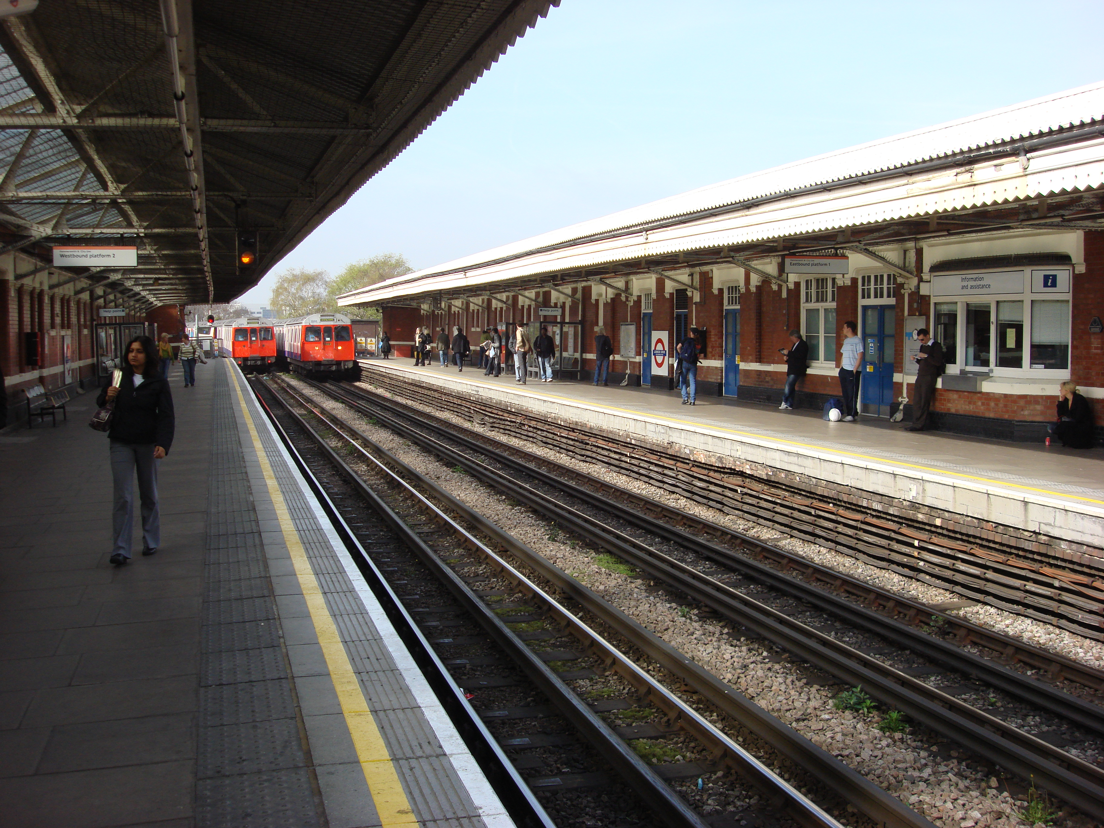 Ladbroke Grove tube station, Taken from the Westbound platform